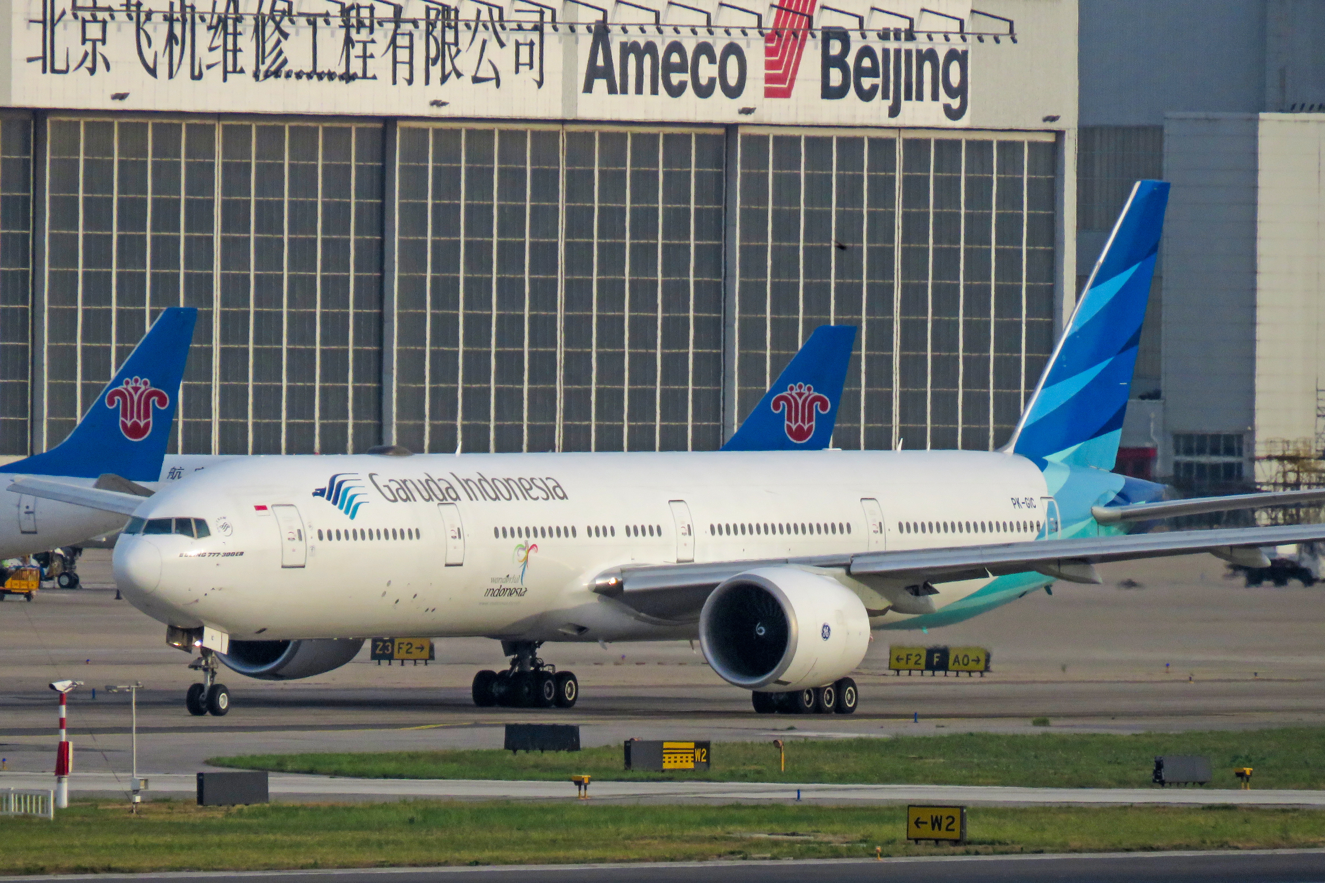 Indonesia 893 to Denpasar. What an earlybird!